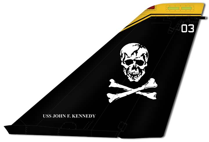 The tail of a US Navy F-14B (Upgrade) Tomcat, belonging to VF-103, the "Jolly Rogers". Original created in Adobe Photoshop by Erik Hess in 2004.